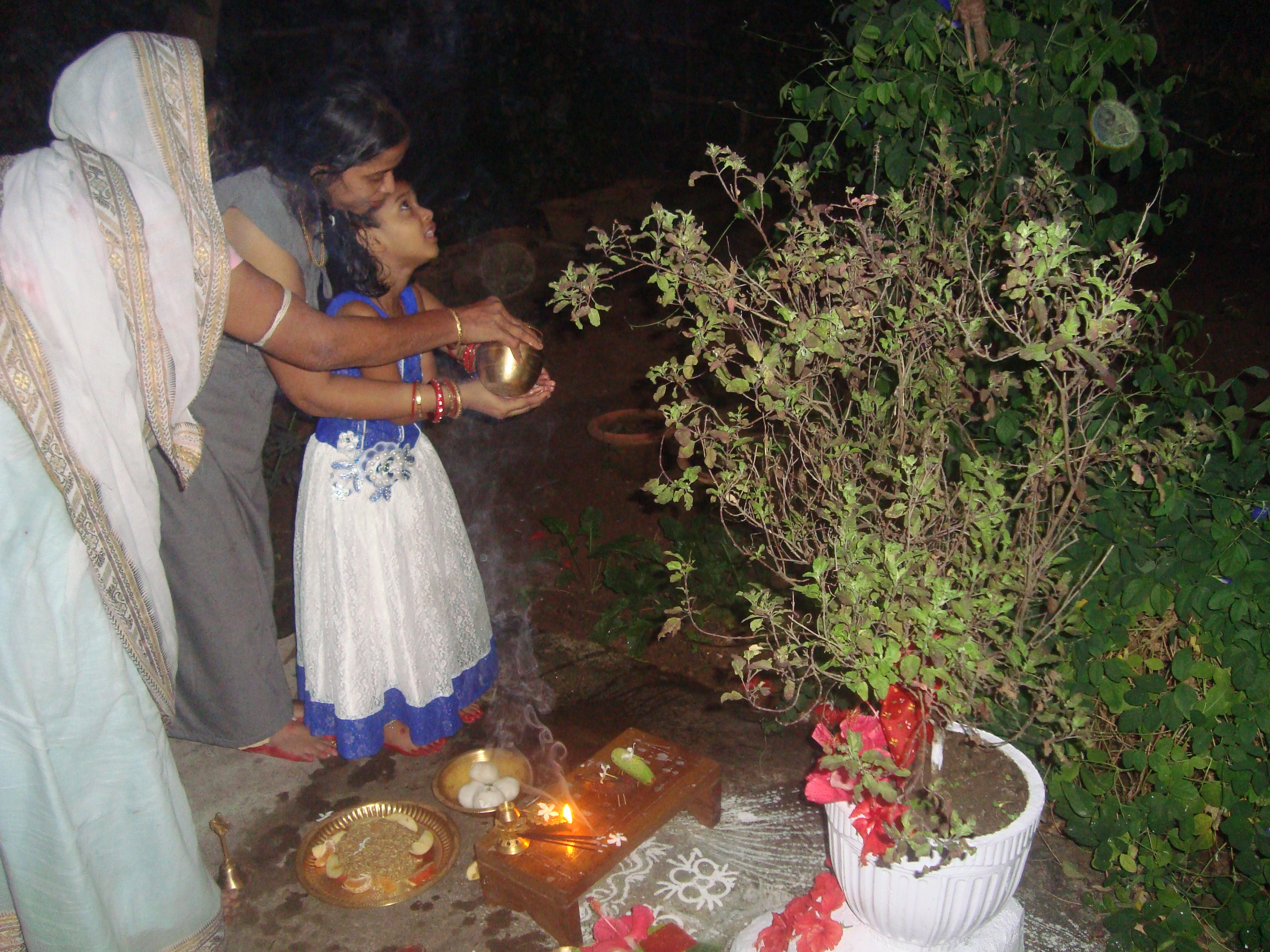 Kumar Purnima celebration